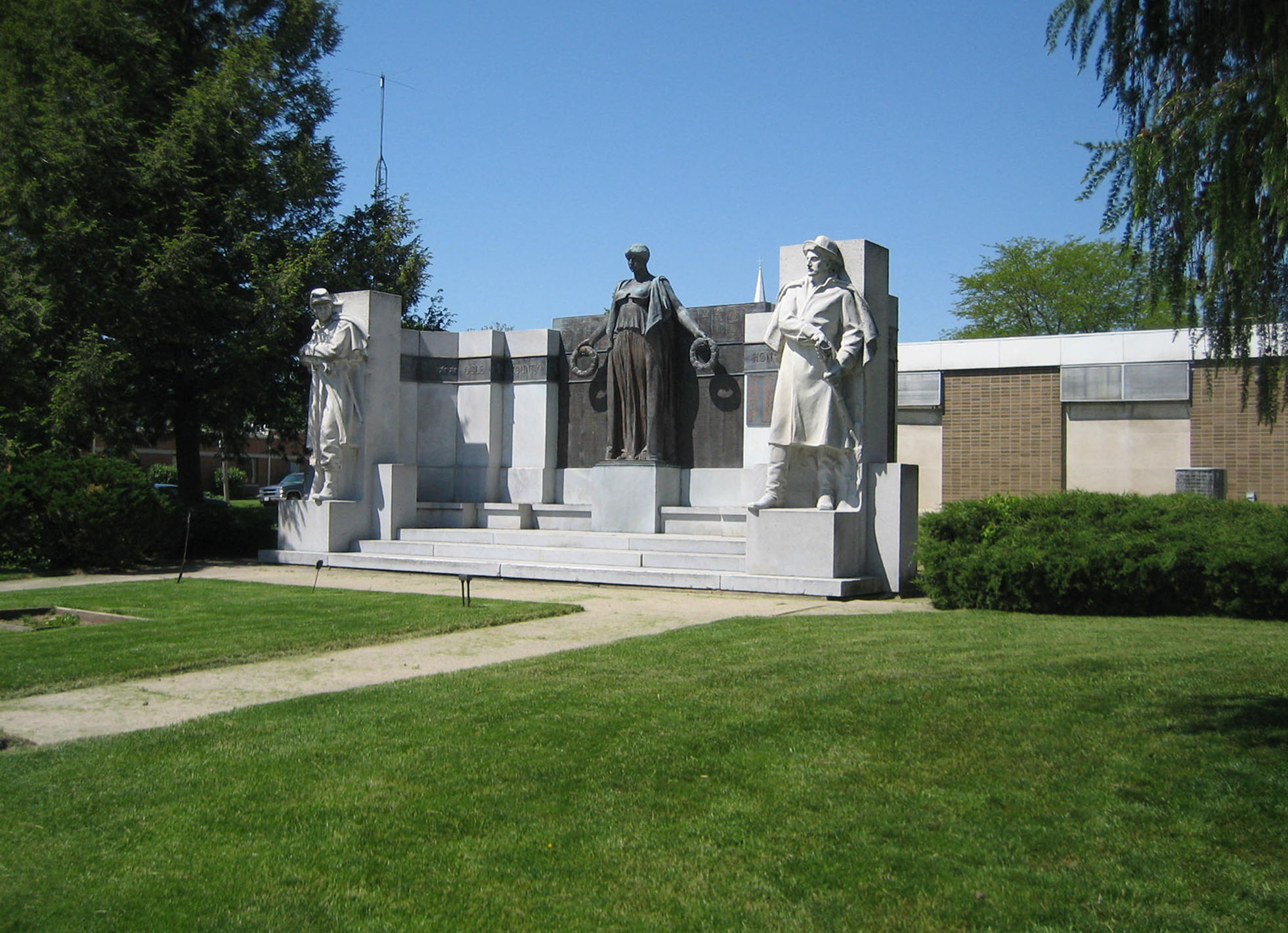 Lorado Taft's The Soldiers' Monument, Oregon, Illinois, courthouse square. A contributing property to the Oregon Commercial Historic District, National Register of Historic Places.